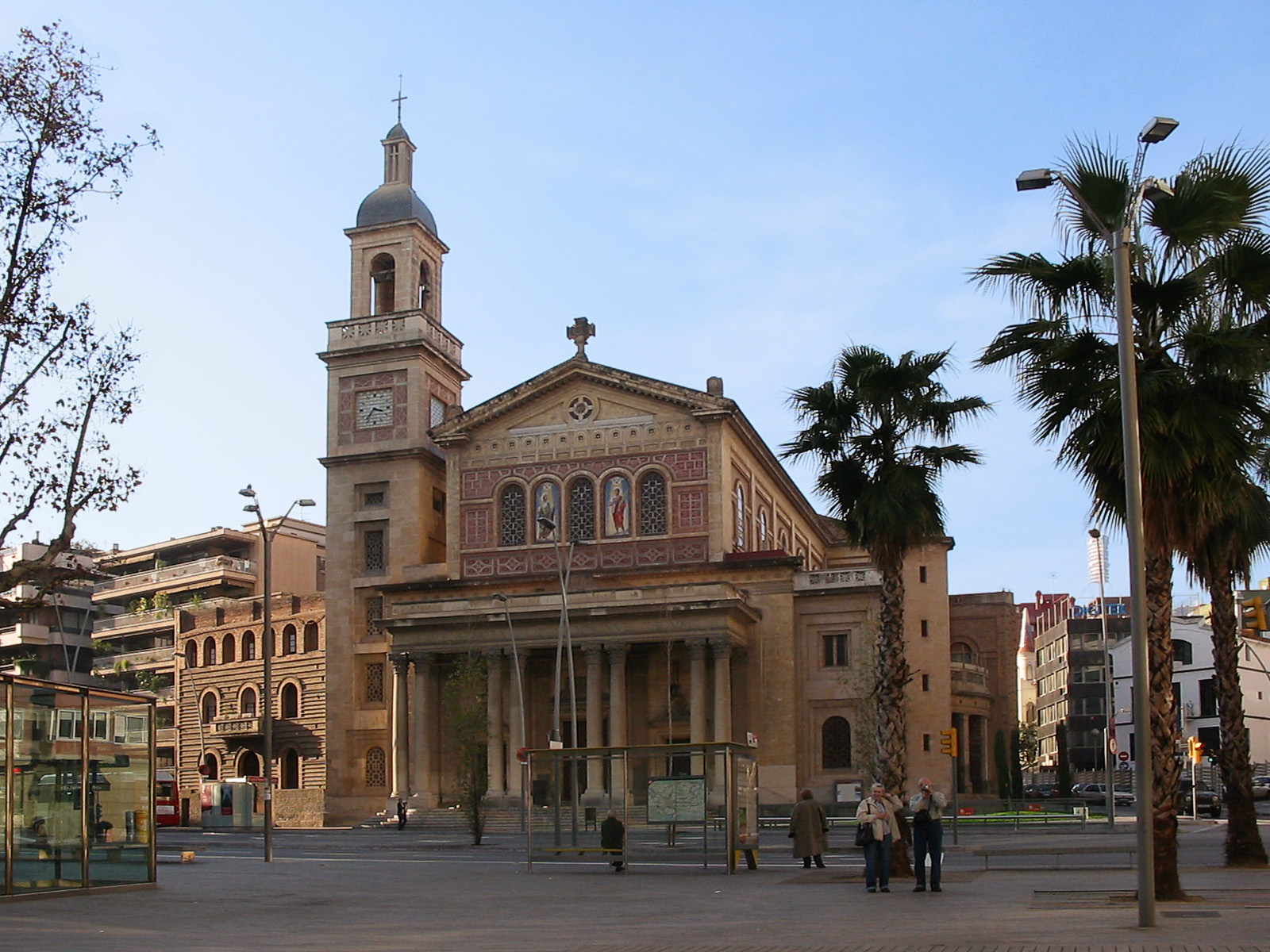 Santa Maria de la Bonanova church, Passeig de la Bonanova, Barcelona